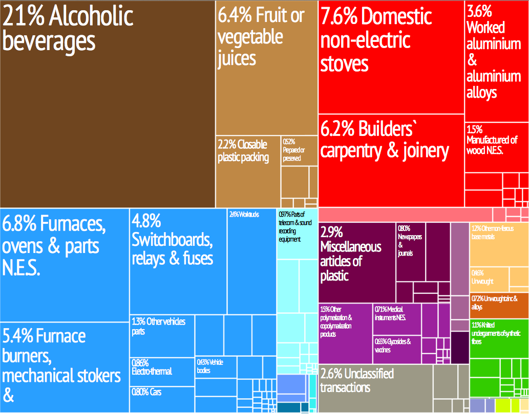 Export Trading Treemap. From MIT/Harvard Atlas of Economic Complexity